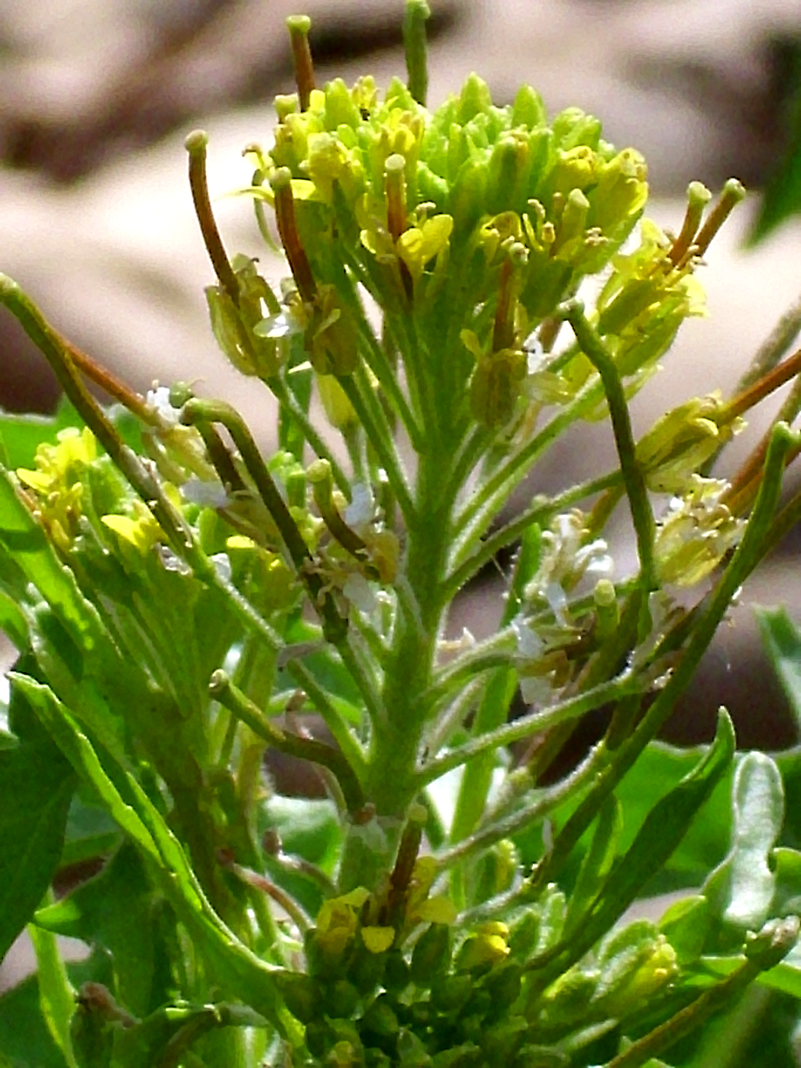 Sisymbrium irio inflorescence close up, Dehesa Boyal de Puertollano, Spain